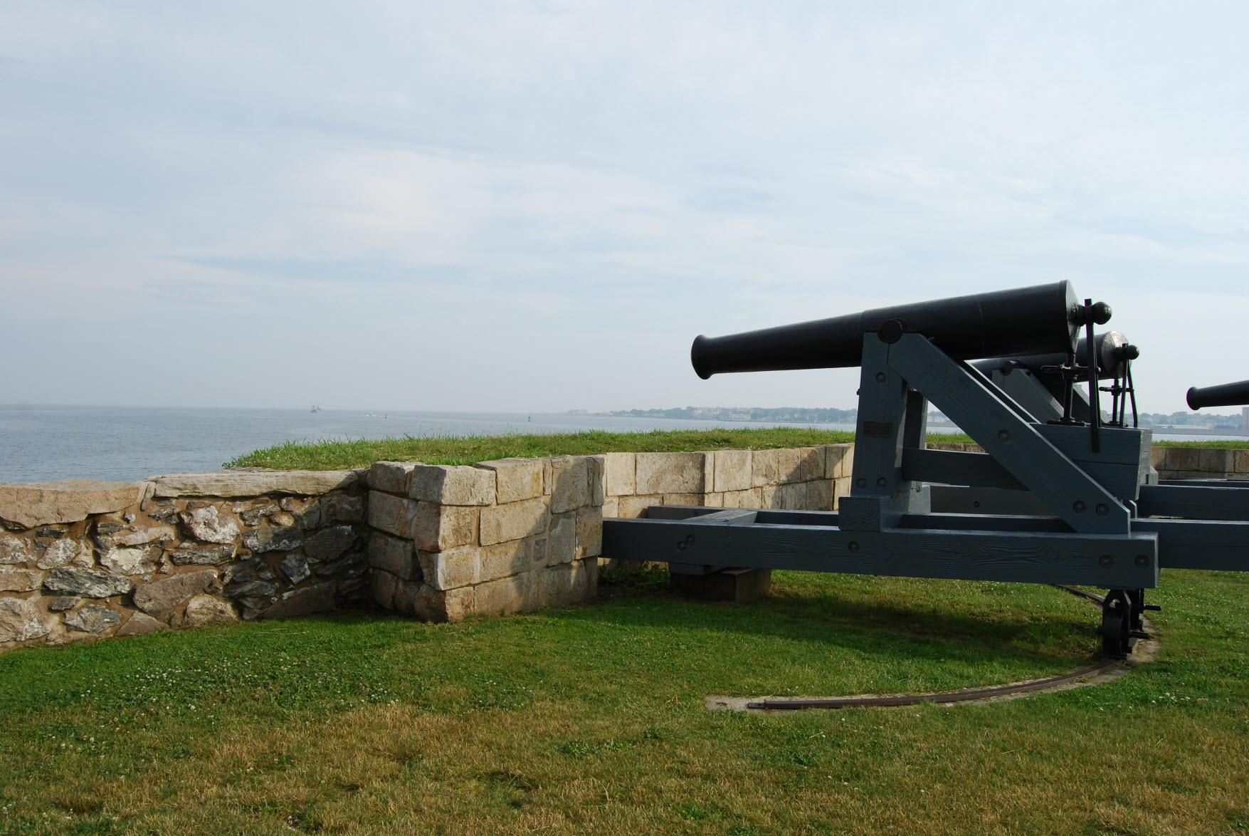 Fort Phoenix, Fairhaven, Massachusetts. The guns are 24-pounder long cannons.